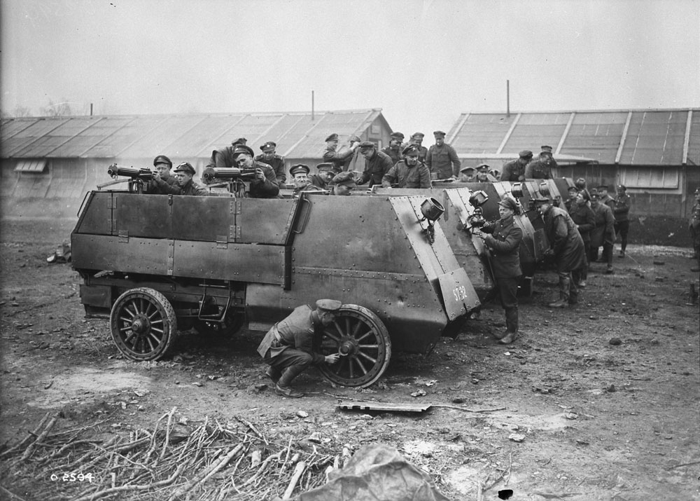 Cleaning armoured cars, Canadian Motor Machine Gun Brigade. Photograph shows six armoured autocars of the First Canadian Motor Machine Gun Brigade, being cleaned. The nearest vehicle is fitted with two Vickers machine guns. Presumably in France. April